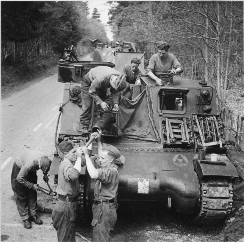 THE BRITISH ARMY IN THE UNITED KINGDOM 1939-45; Priest 105mm self-propelled gun of 303rd Battery, 76th Highland Field Regiment, 3rd Infantry Division, Emsworth, Hampshire